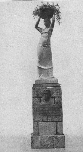 Monument in memory of Bavarian writer Ludwig Leitl by sculptor Richard Miller in his birthplace Tittmoning